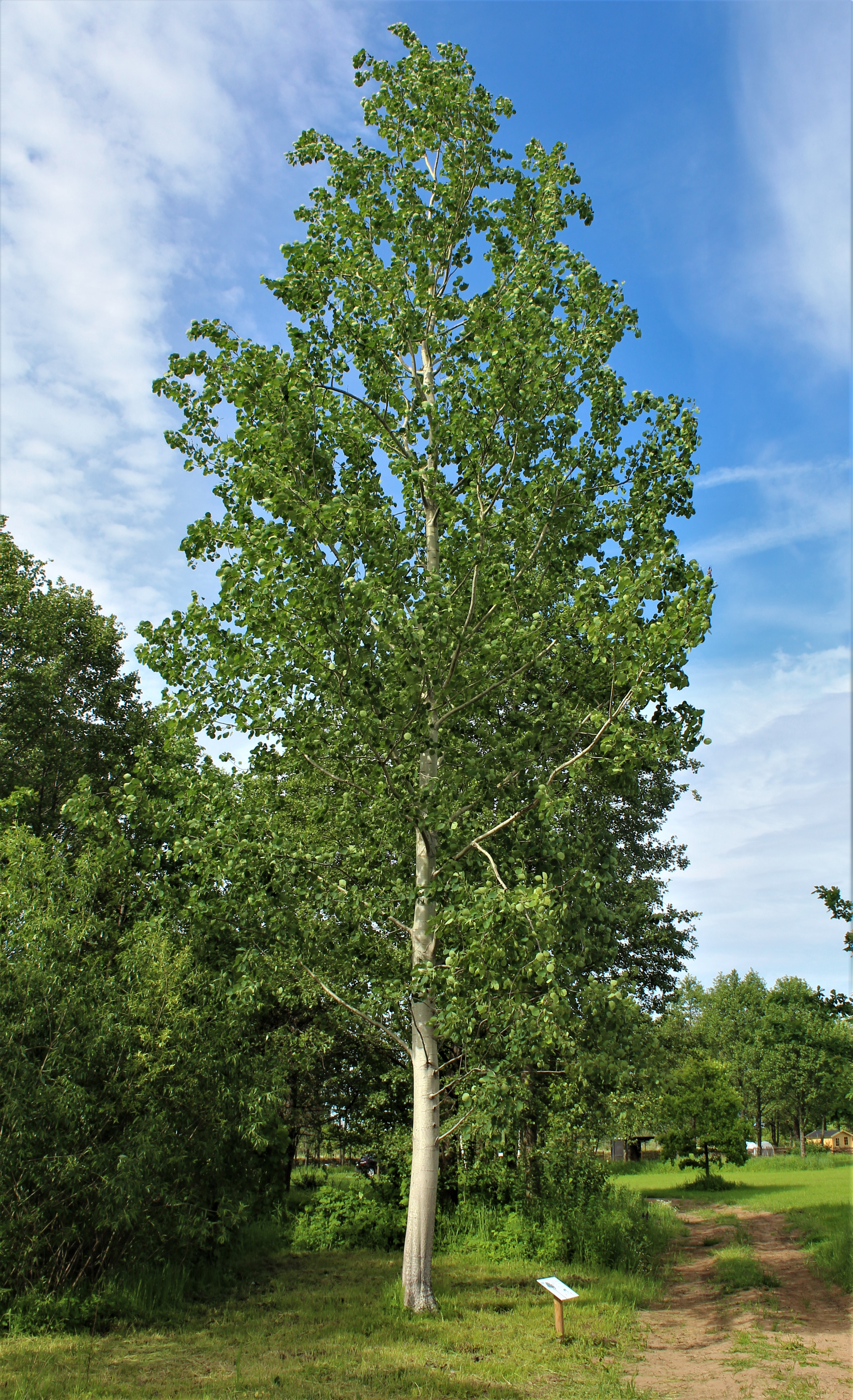 Populus tremula in Riga, Esena dārzi, June 2019